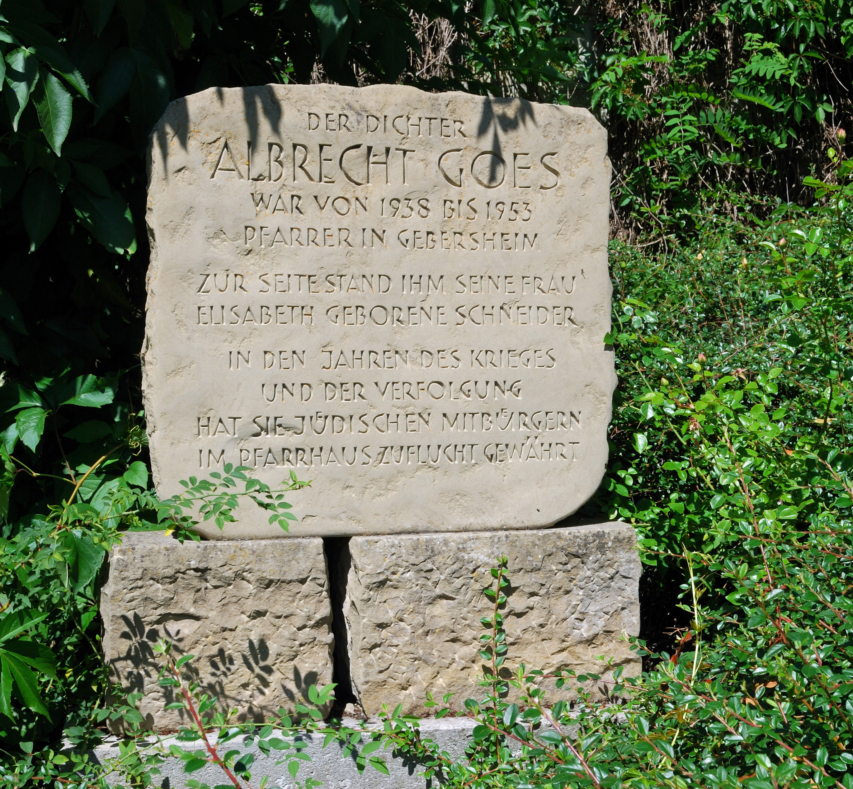 Memorial stone for the German poet and pastor Albrecht Goes at the church in Gebersheim. Goes was in the years 1038-1953 pastor in Gebersheim. The memorial stone is a work of the Stuttgart artist Markus Wolf from the year of 2003.